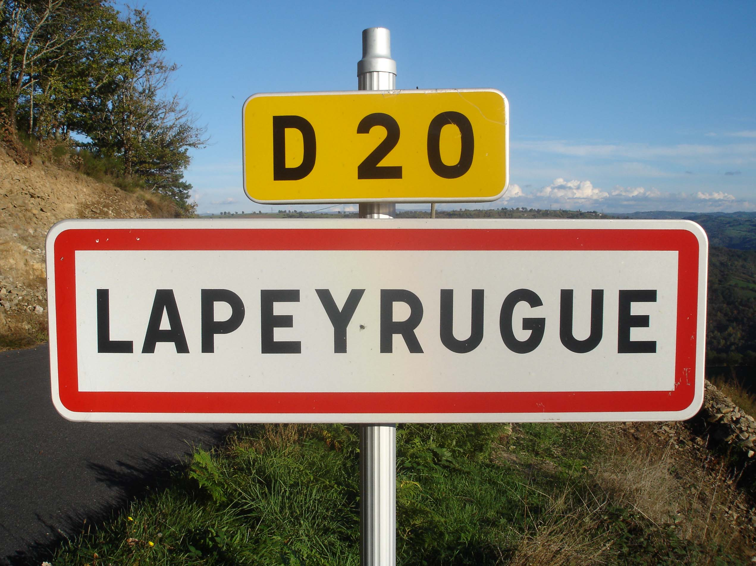 Lapeyrugue